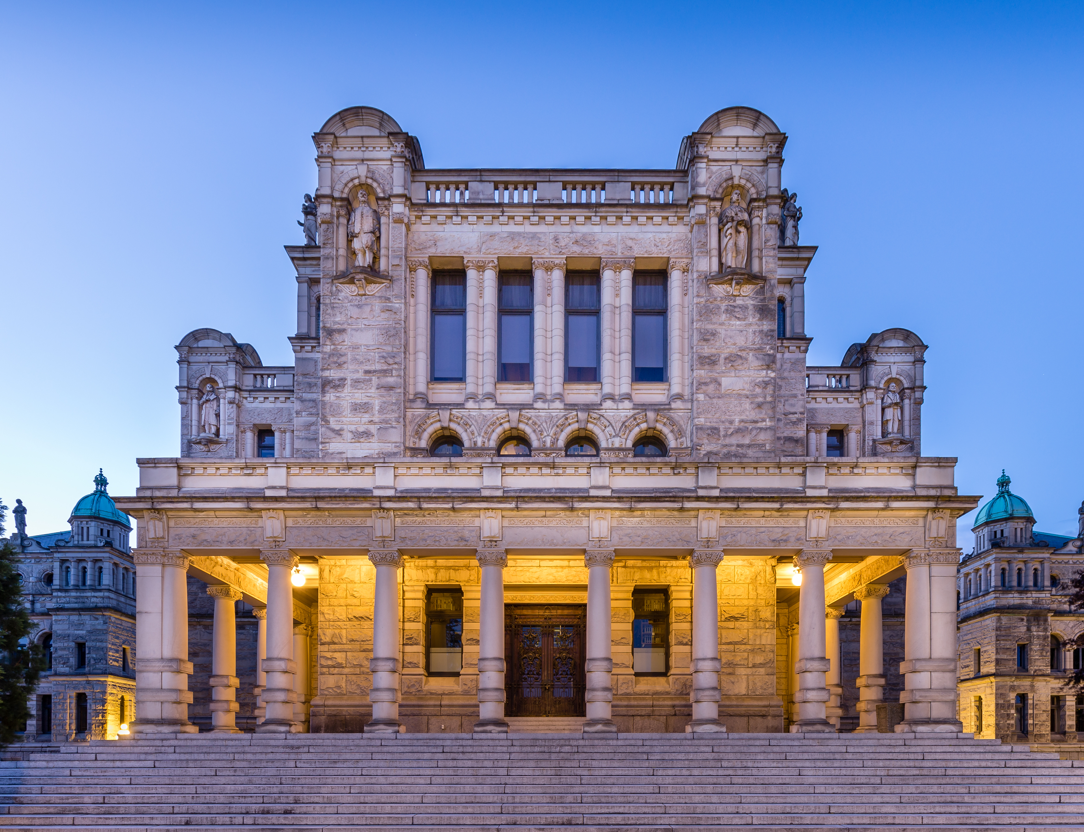 British Columbia Parliament Building, Victoria, British Columbia, Canada